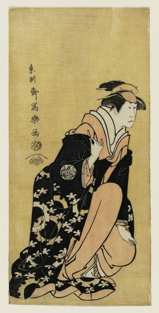 Hosoban ukiyo-e yakusha-e print